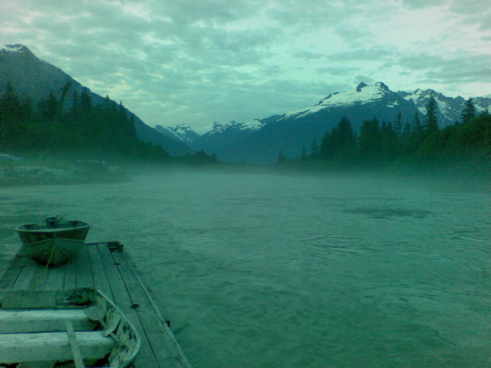 This is the view from the dock at the logging camp near the mouth of the Homathko River in British Columbia. The photo was taken by Matt P. Crawford while performing engineering work in the Homathko River Valley.